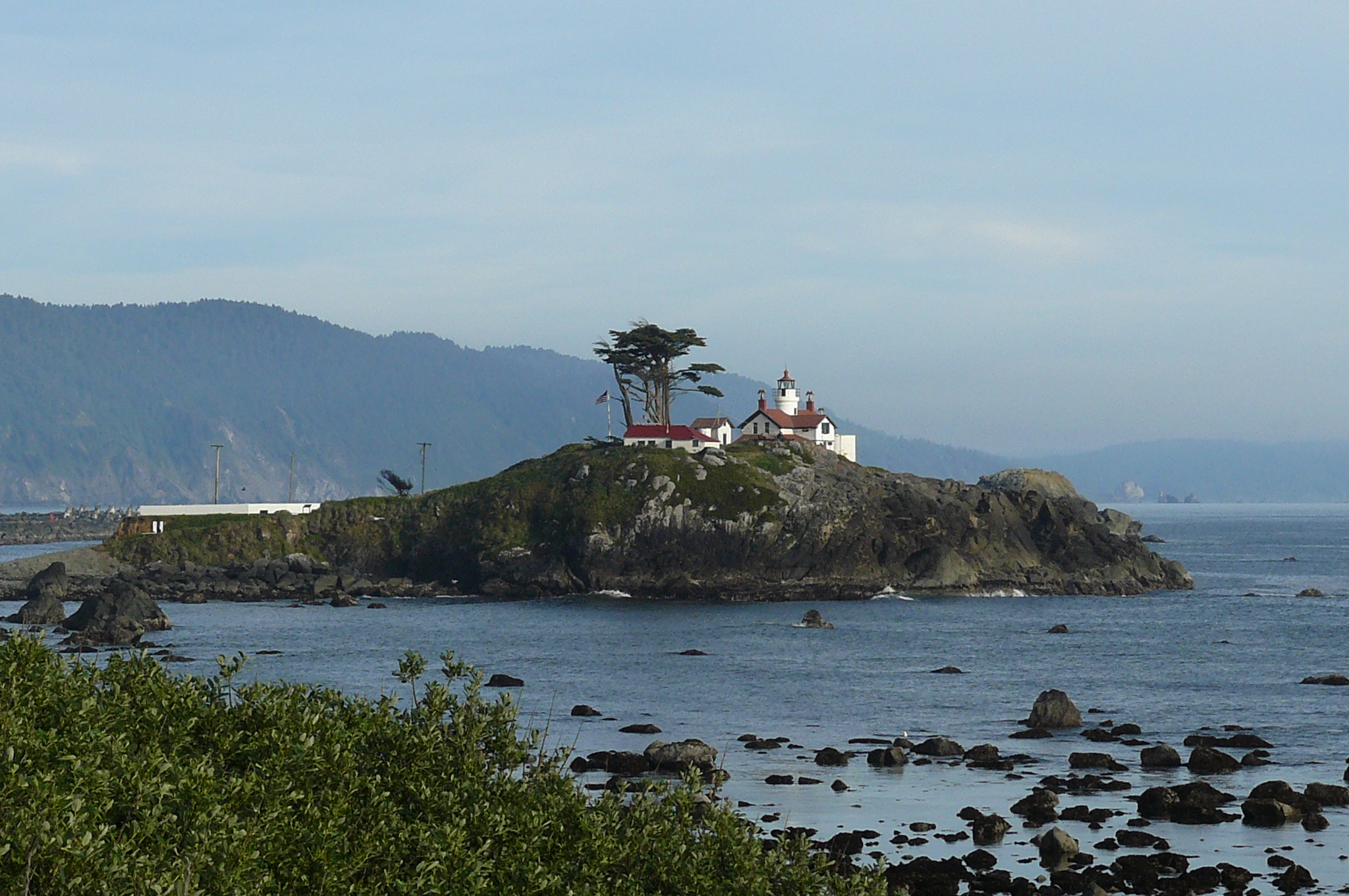 Battery Point Lighthouse, Crescent City (California)